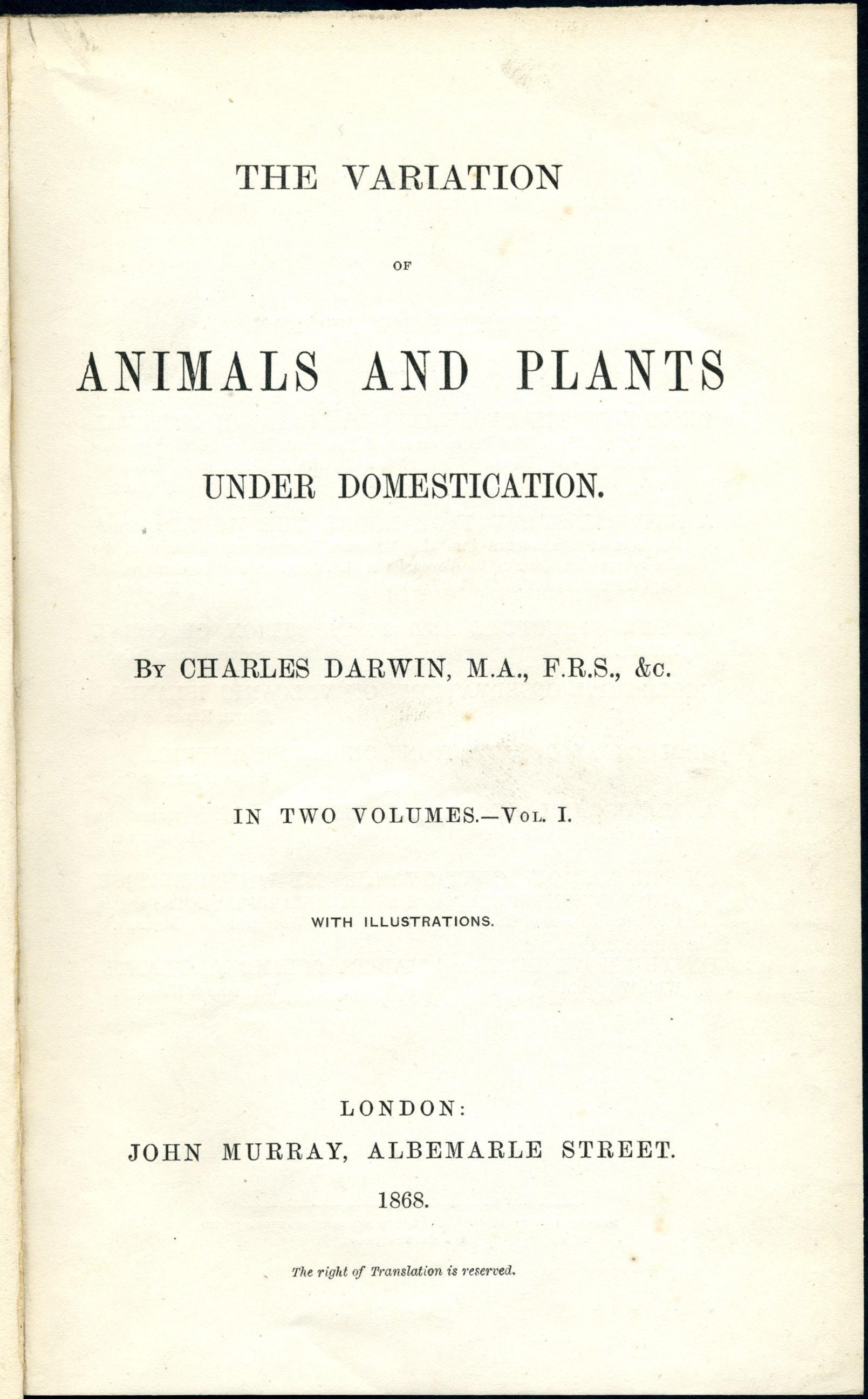 Title page from the first edition of Charles Darwin's book Variation of Animals and Plants Under Domestication published in 1868